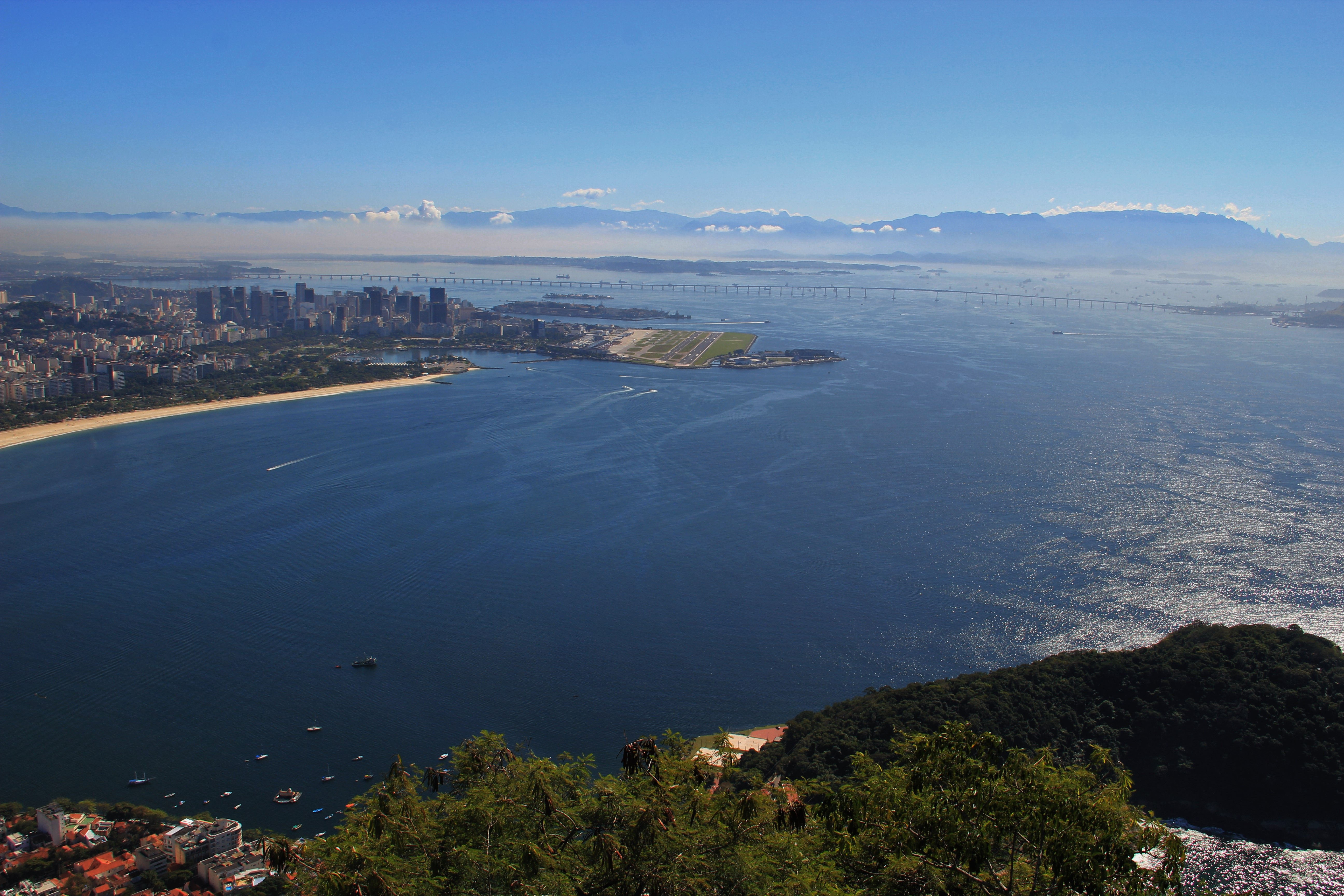 RIO. Guanabara Bay + Santos Dumont-Airport